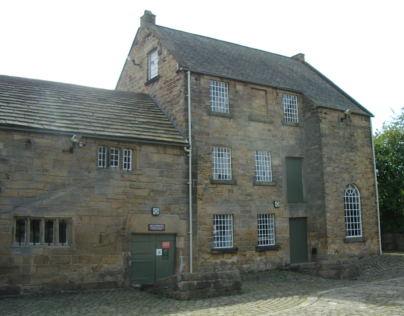 Image of Worsbrough Mill, taken by user:Robinh on 15 August 2005 and hereby dedicated to the PD